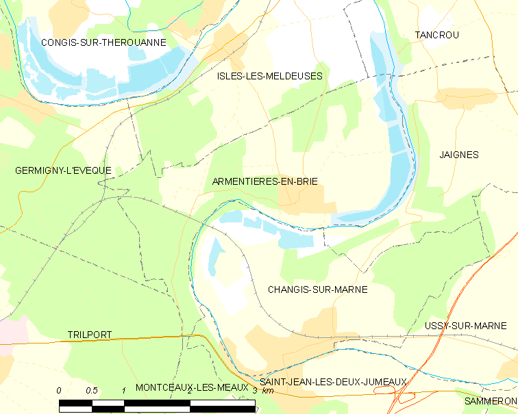 Map of French municipality Armentières-en-Brie